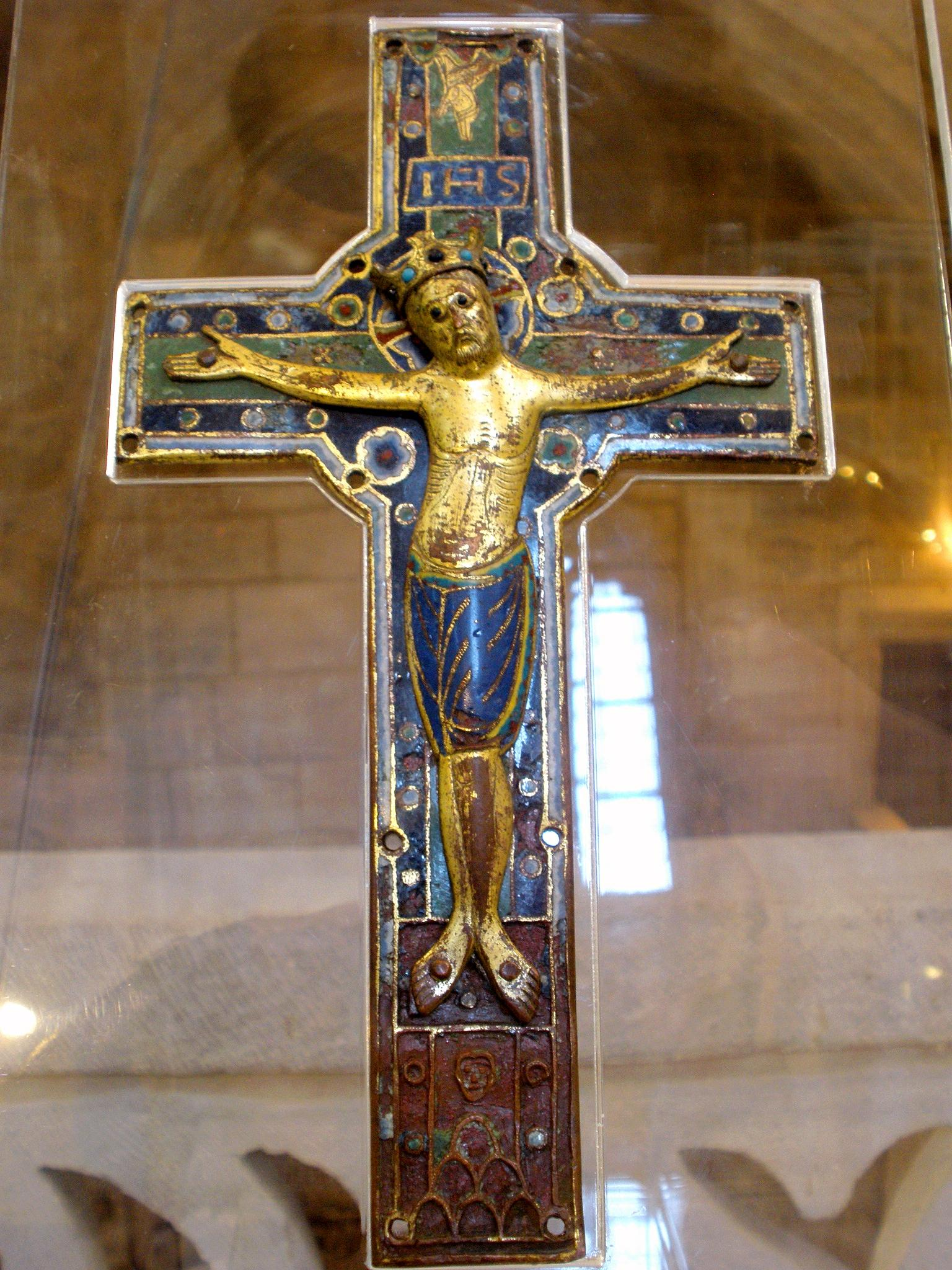 Cruz de aplique del siglo XII. Cobre dorado, grabado y esmaltado, procedente de la Iglesia parroquial de Terrazas, Burgos. Depositada en la Sección de orfebrería del Museo del Retablo, en el coro de la Iglesia de San Esteban, Burgos, España